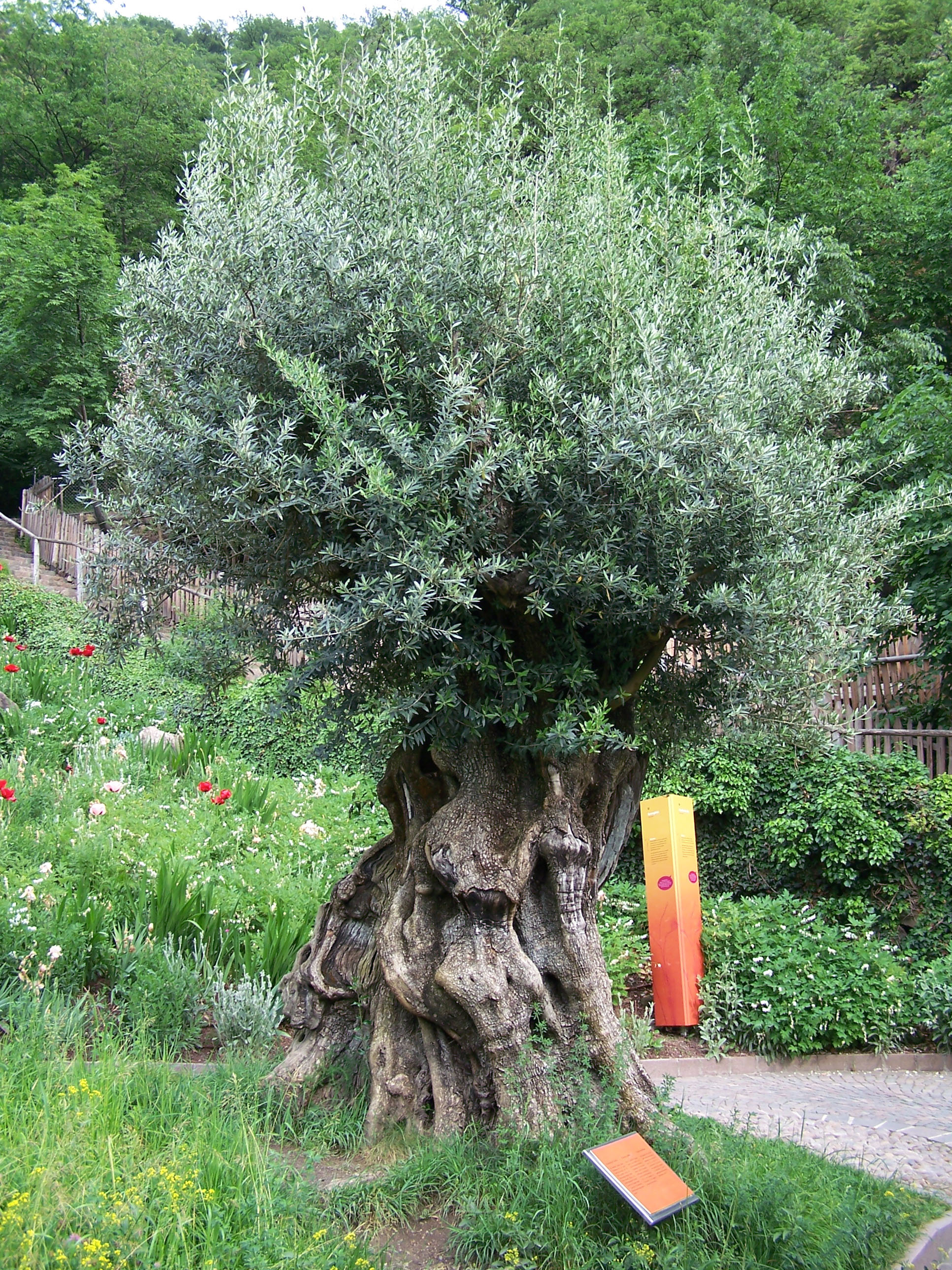 Old olive tree in Trauttmansdorff Castle Gardens in Meran, South Tyrol